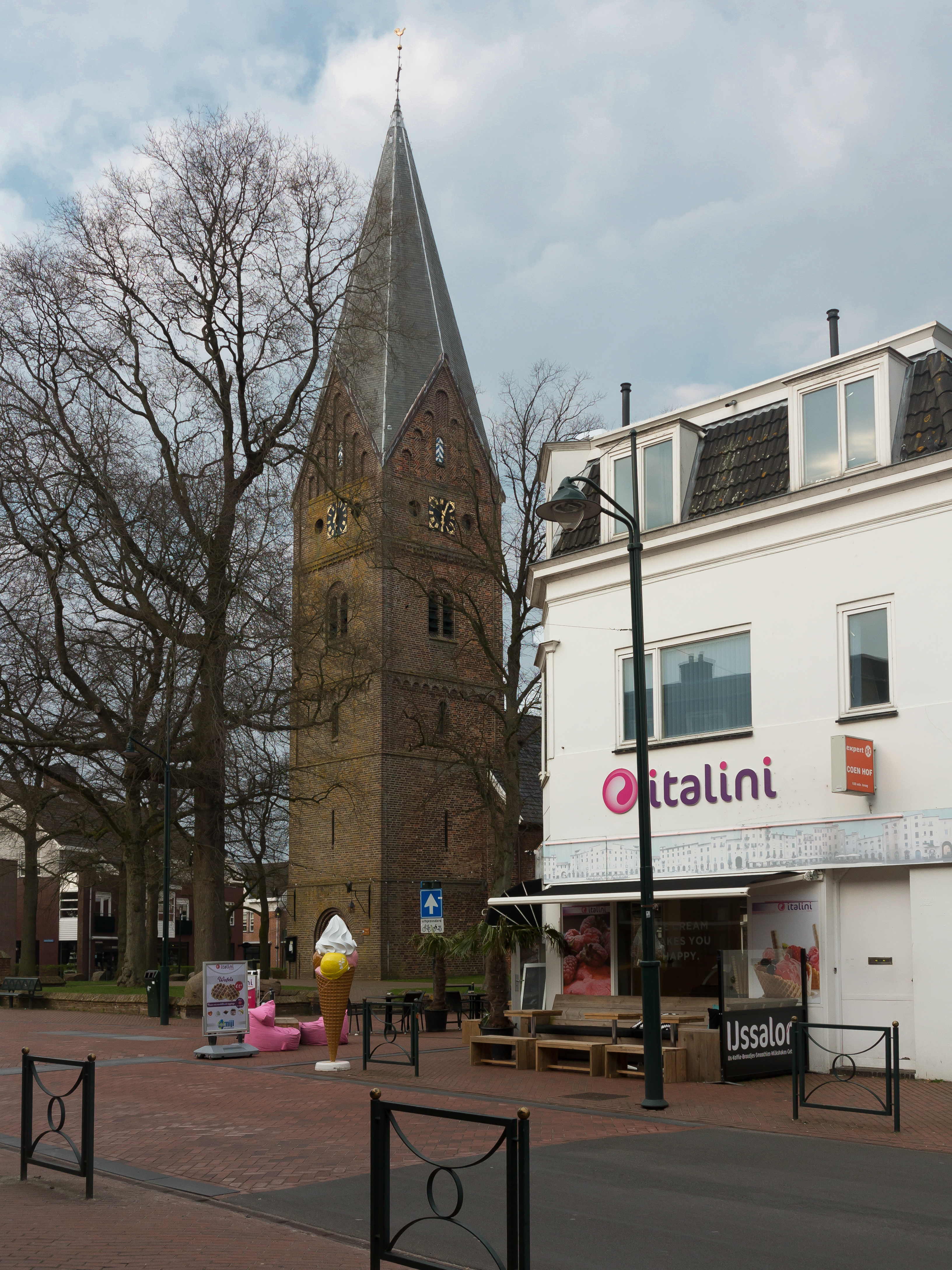 Haren, church (de Nicolaaskerk) and an Italian ice cream parlor